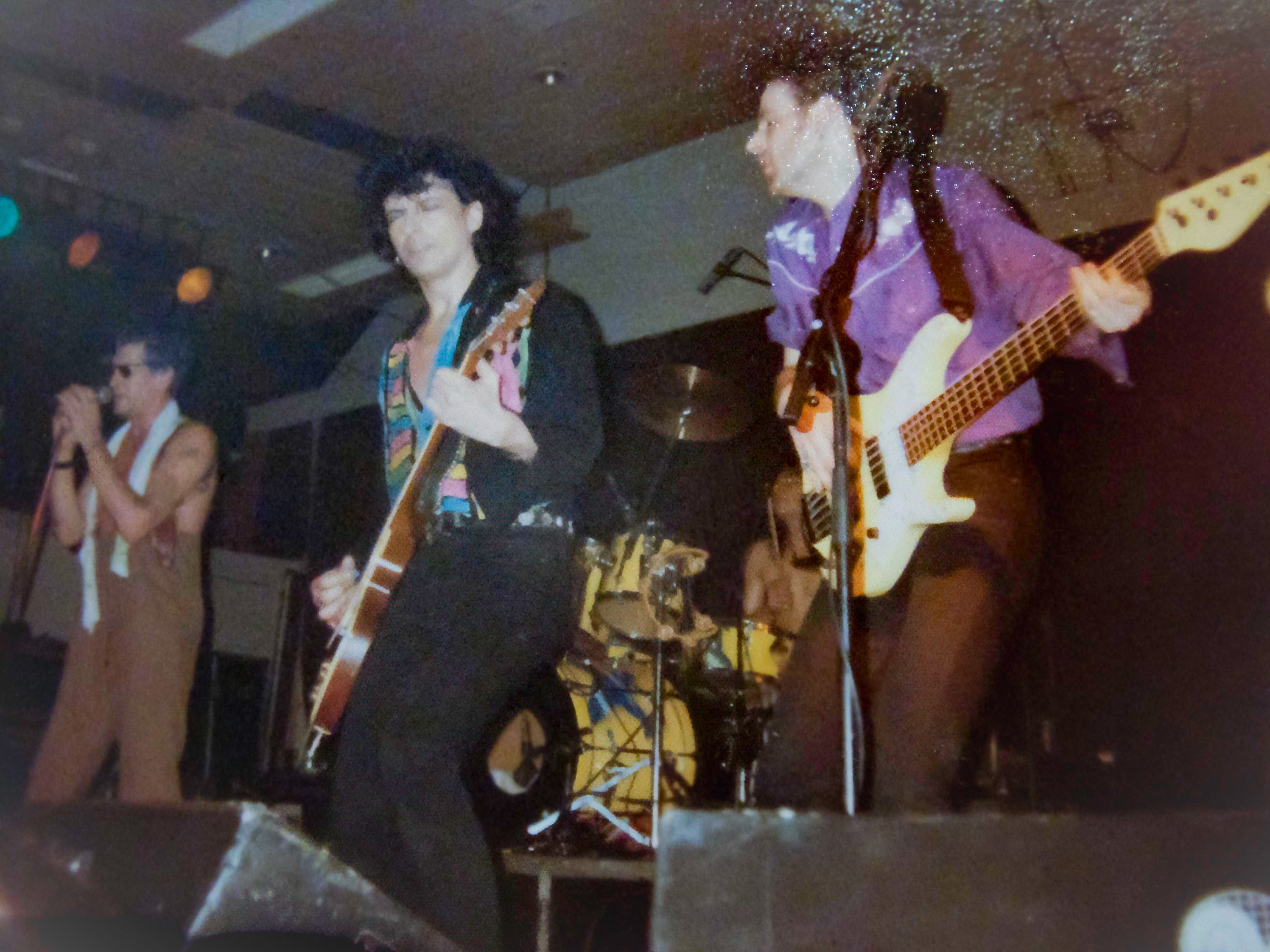 Herman Brood, live at Eucalypta Winterswijk (the Netherlands)